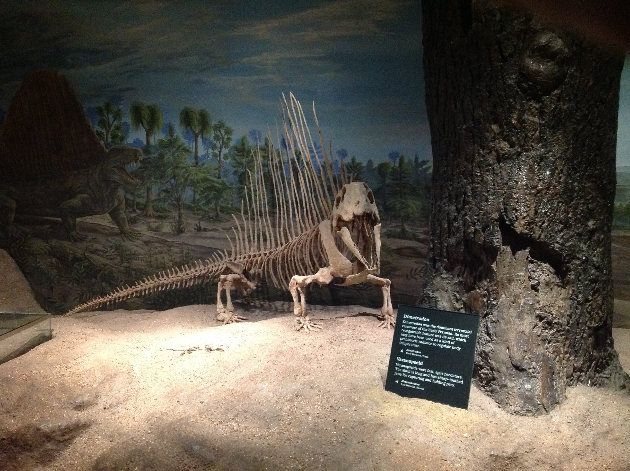 Dimetrodon, Royal Tyrrell Museum, Alberta, Canada